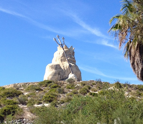 King Neptune at Atlantis Marine Park in Perth, Western Australia. April 2012